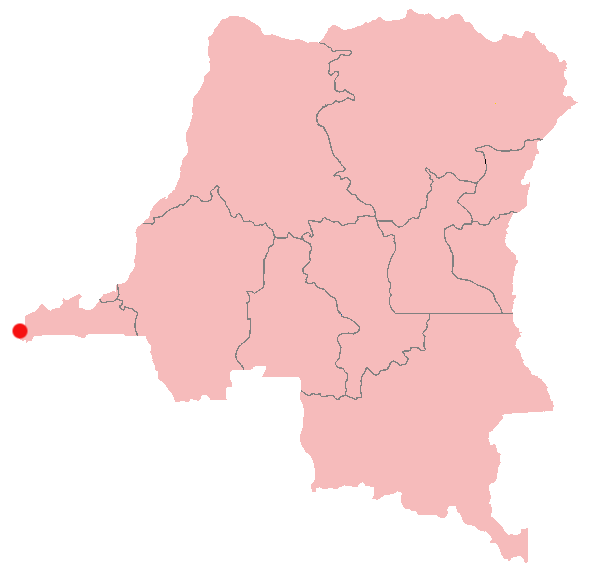 Muanda, Democratic Republic of the Congo Location Map; created with the GIMP. Made by User:Acntx.